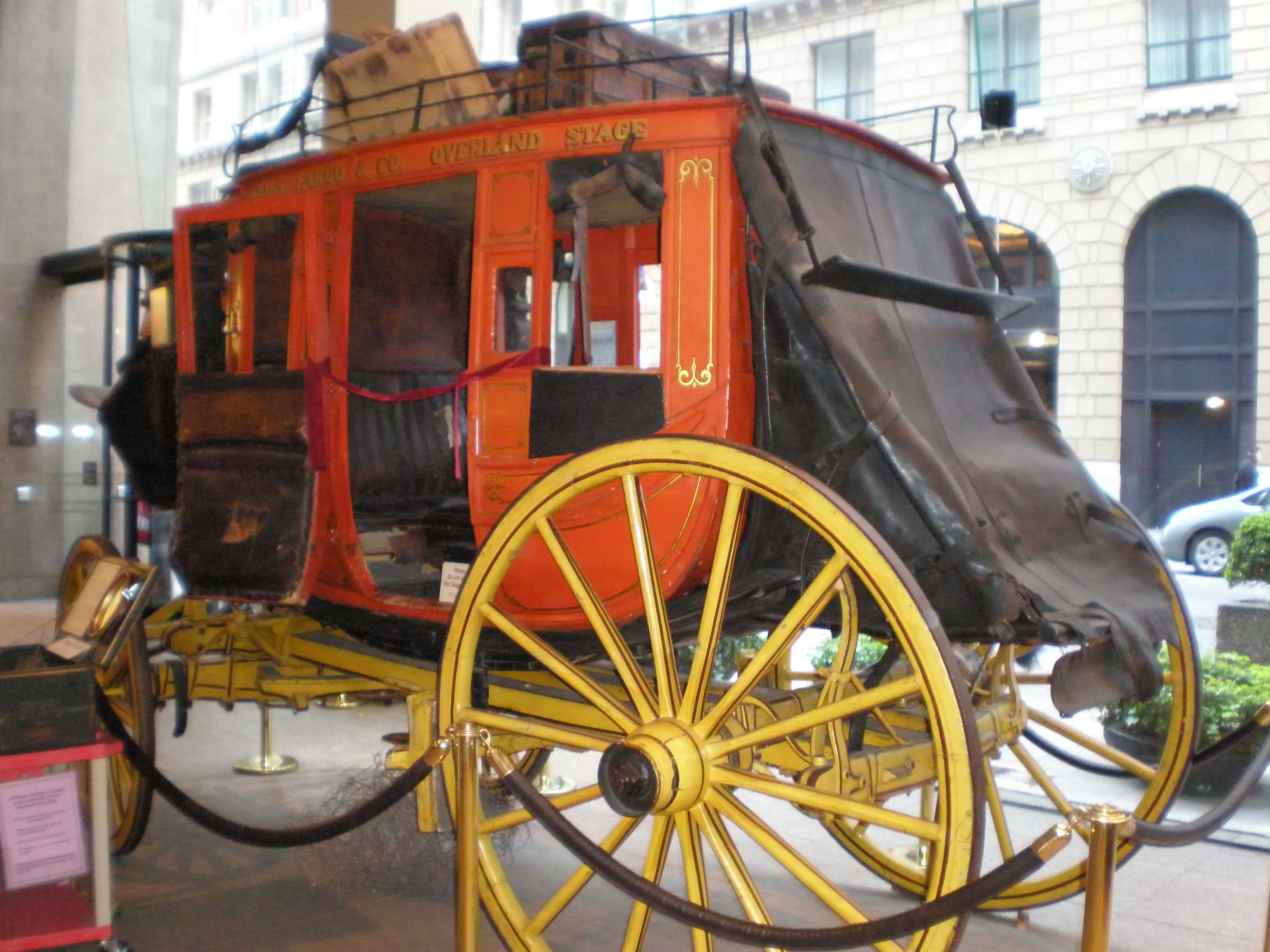 An original Concord Stagecoach on display at the Wells Fargo History Museum in San Francisco, California.